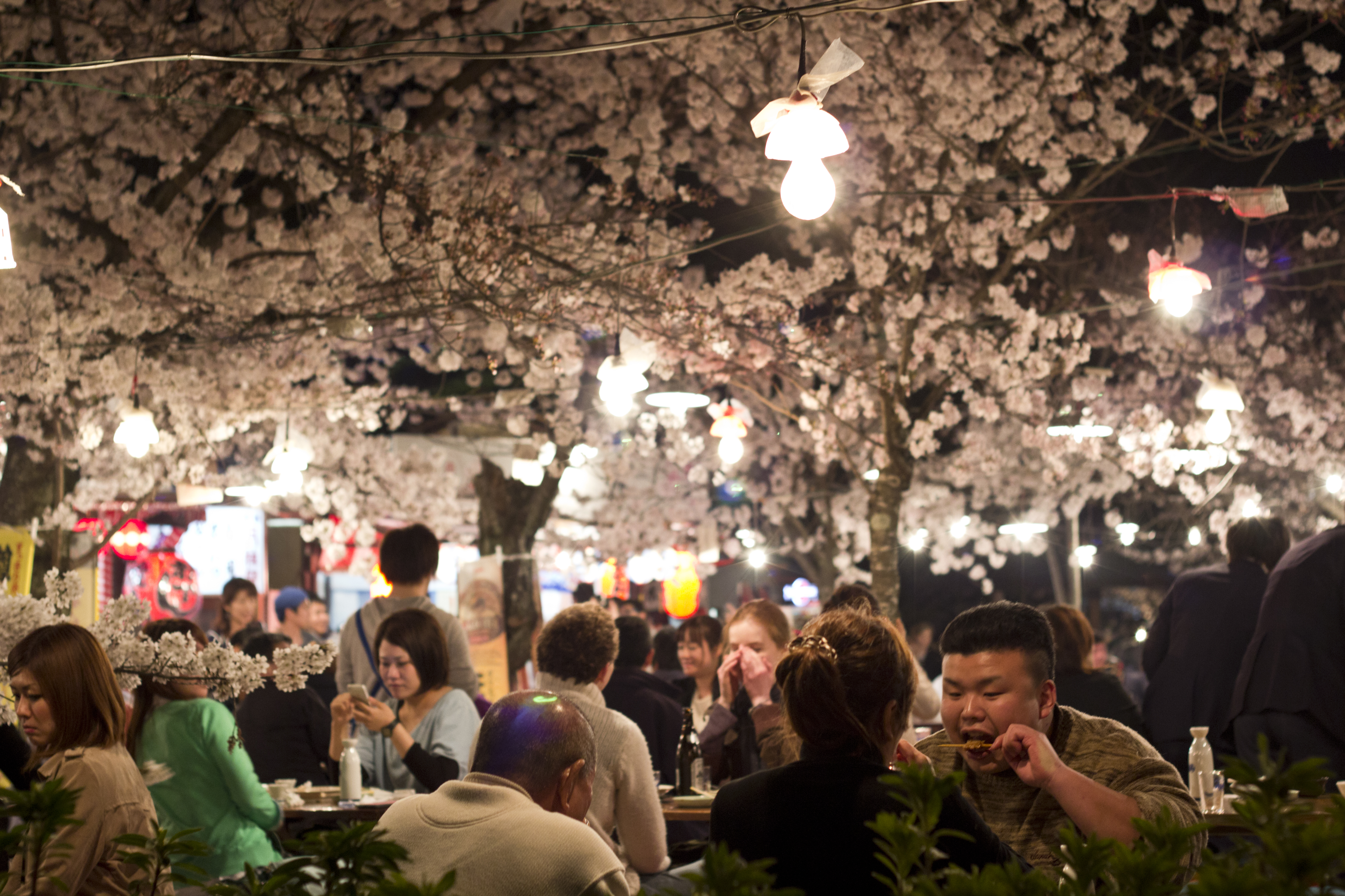 "Hanami", cherry blossom viewing (and drinking) in the Maruyama Koen of Kyoto